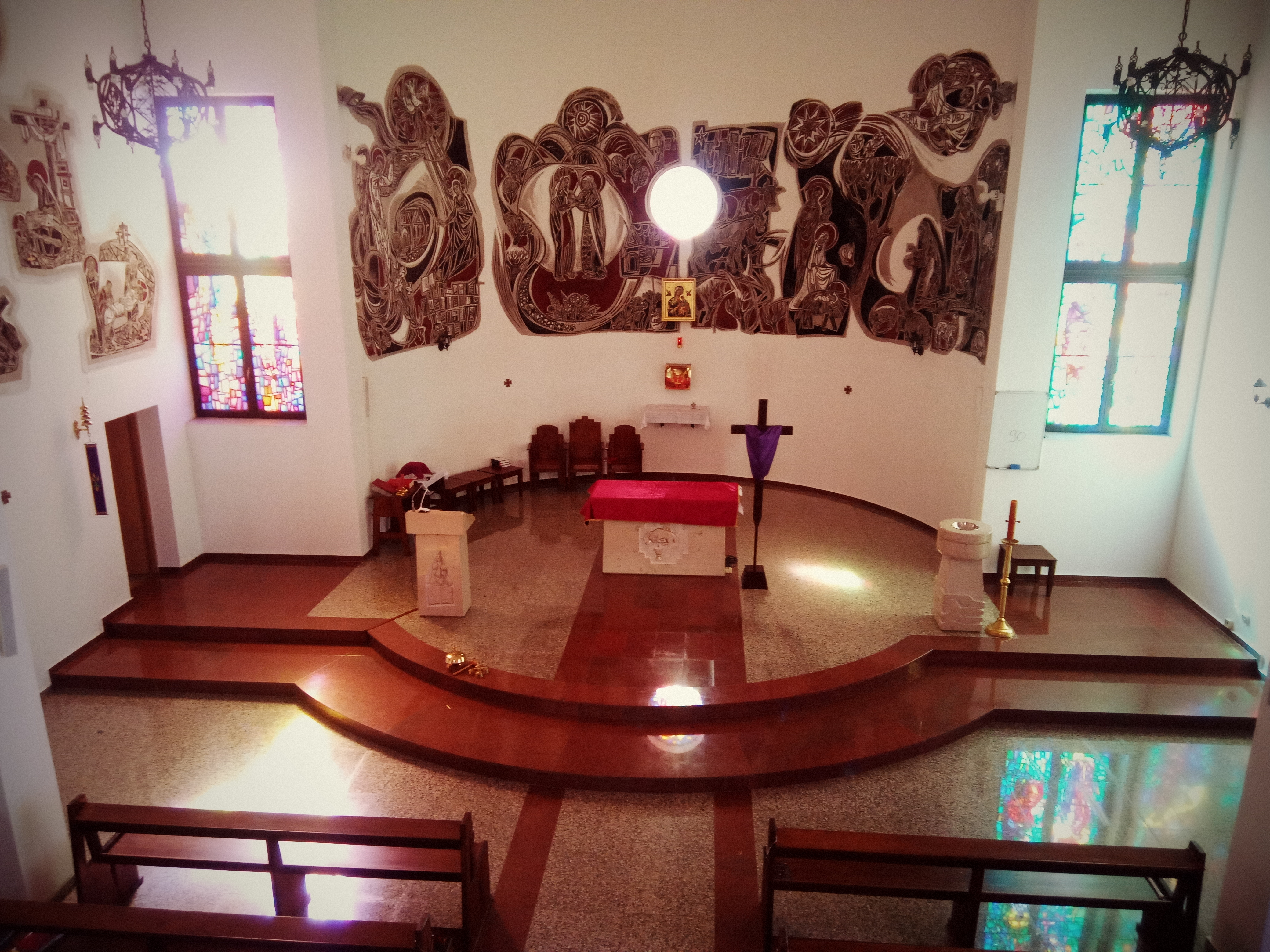 Aktobe – Parafia Dobrego Pasterza prezbiterium 2018